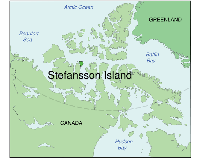 Created based on images from the CIA's World Fact Book.